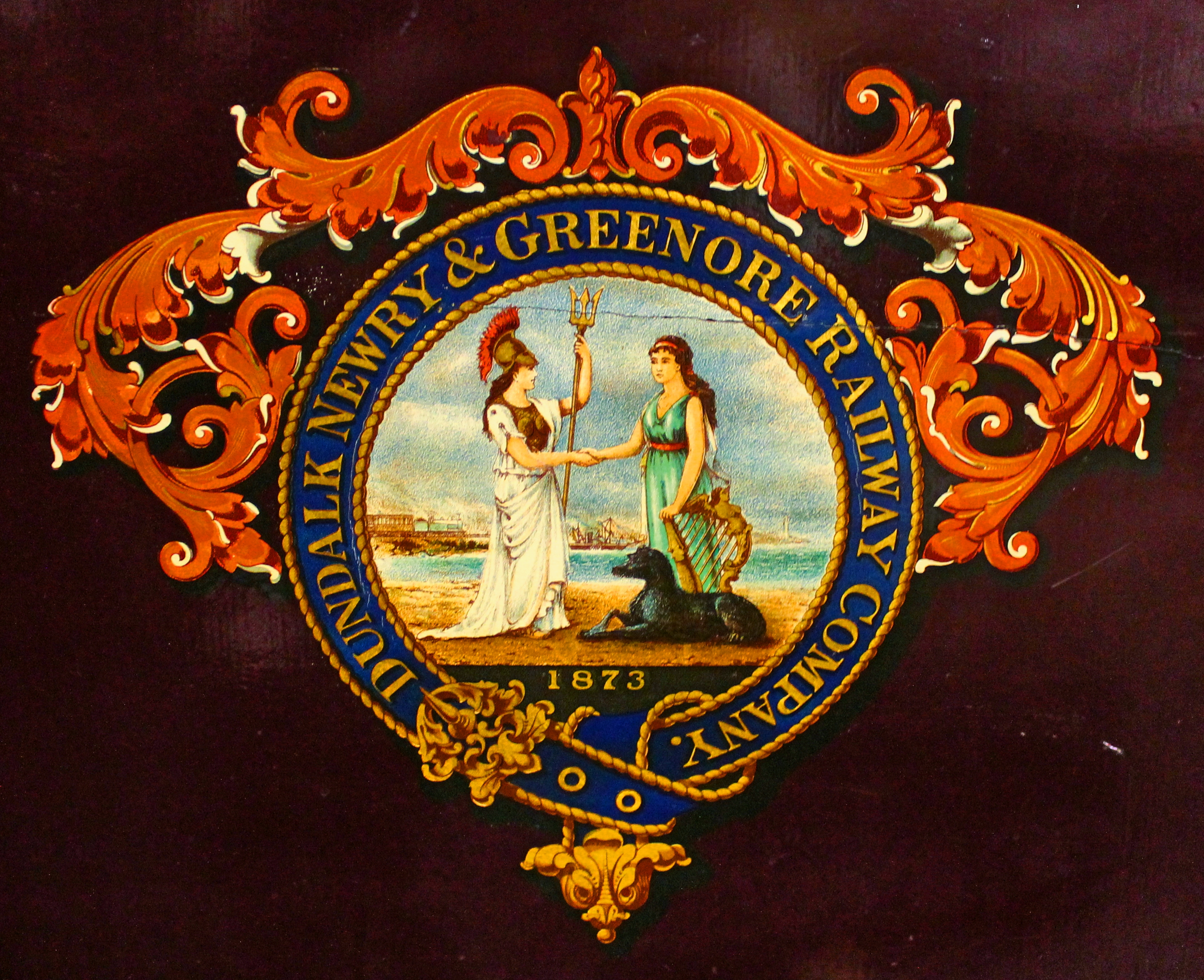 DNGR crest